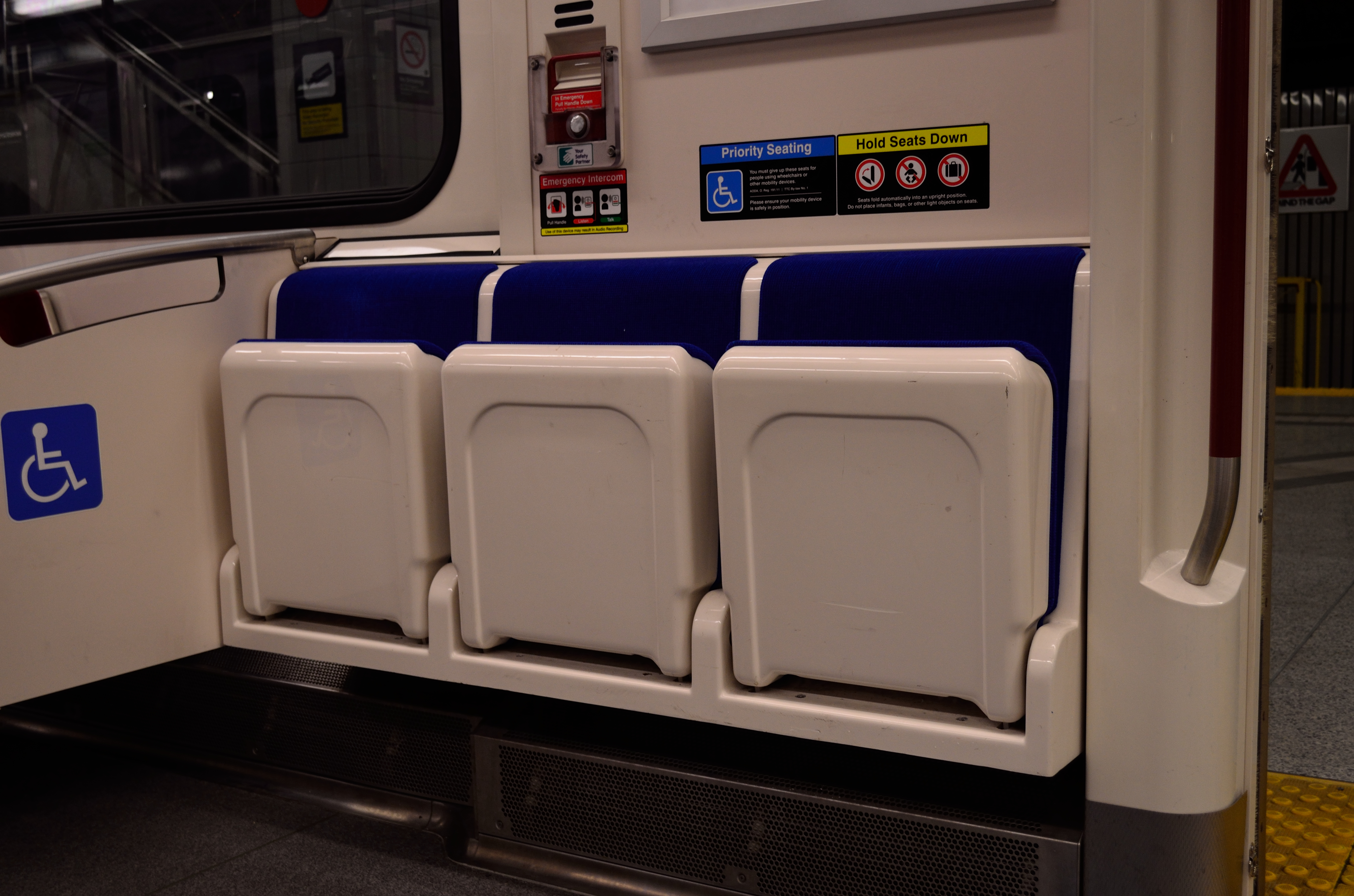 TTC subway blue seats